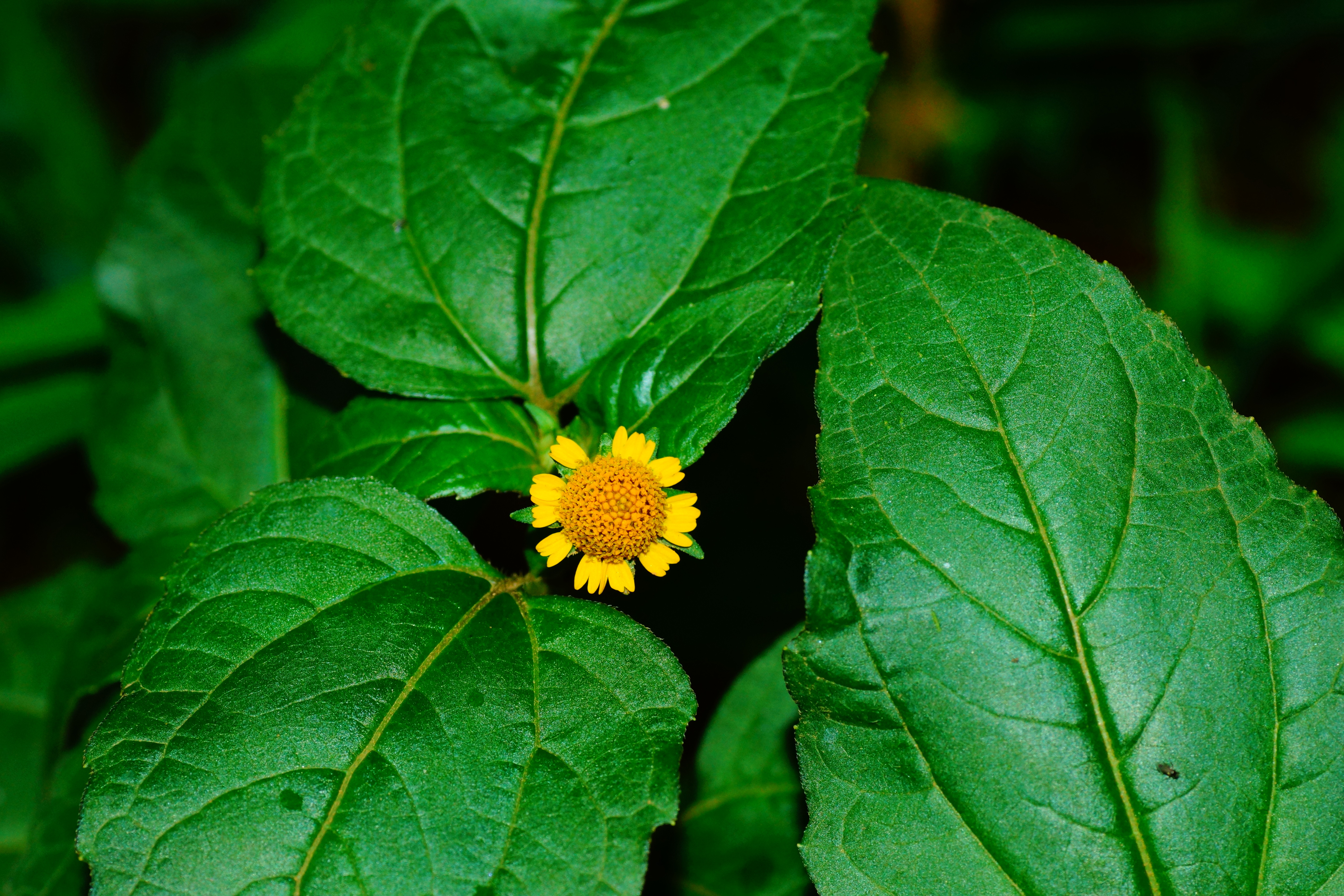 Marsh Para Cress